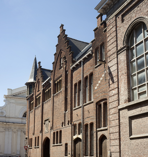 Sint-Lukas, Posteernestraat; Gent, Oost-Vlaanderen, Belgium; ; ref: PM_085319_B_Gent; ; Photographer: Paul M.R. Maeyaert; © Paul M.R. Maeyaert; ; Cultural heritage; Europeana; Europe/Belgium/Gent